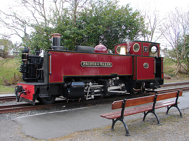 Vale of Rheidol Railway No. 9 (Prince of Wales) At Devil's Bridge